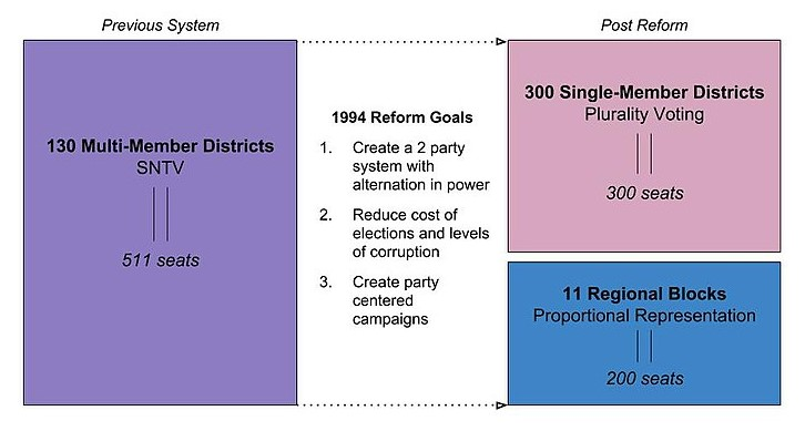 A simple visual representation of the 1994 Japanese electoral reform.